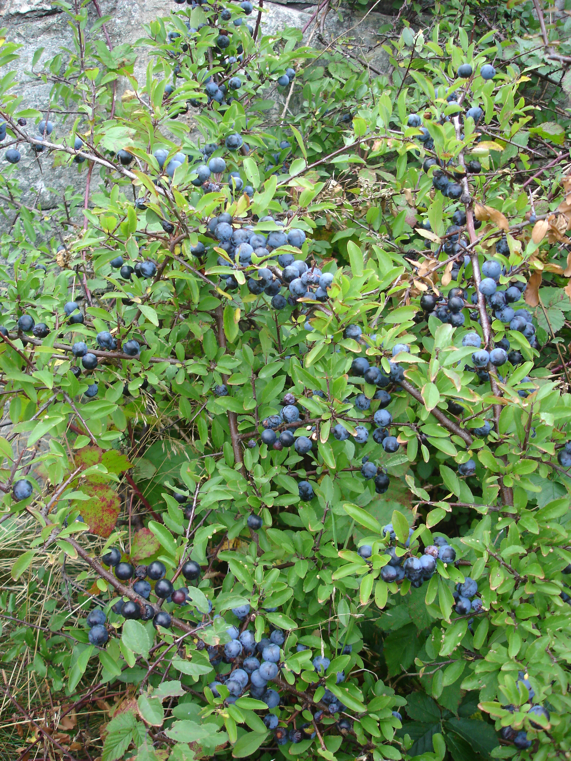 This shrub is called Blackthorn (its berries are called Sloe) Location: North west of Gothenburg, Sweden. Plant name in other languages: Slån or Slånbärsbuske in Swedish, Slåpetorn in norwegian, Slåen in danish, Oratuomi in finnish, Prunellier in french, Sleedoorn in dutch and Schwarzdorn in german. Camera: Sony Cybershot DSC-W1 (see EXIF below)